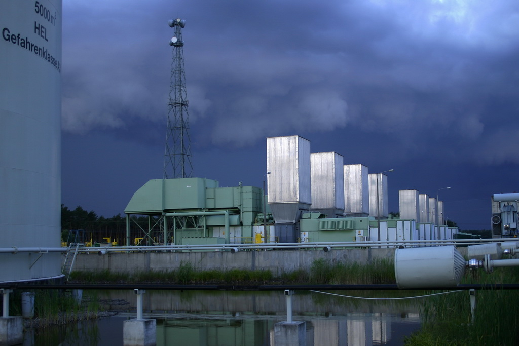 General Electric MS6001B gasturbines A3-H3 and the 5000m³ diesel fuel tank at the powerplant Thyrow